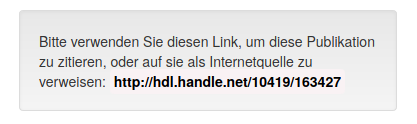 use of handle system by econstor